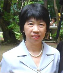 Prof.Dr.Pramuan Tangboriboonrat